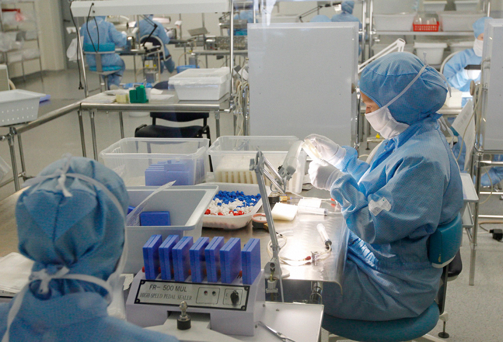 “Membrane filter for blood plasma production”. Production of membrane filters for blood plasma using nanotechnologies in the developmental center "Alfa". The center is located in the technological special economic zone "Dubna".